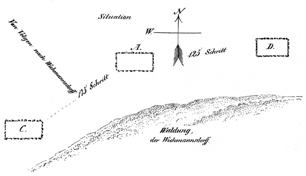 Location plan of prehistoric tombs near Bornsen (Bienenbüttel)